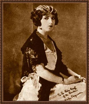 Publicity photo of Helen Ferguson from The Blue Book of the Screen by Ruth Wing, editor